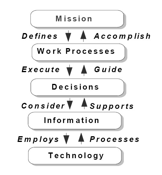 Relationship of Mission and Work Processes to Information Technology Given this legislation, a key assessment issue for evaluators is determining whether major agency investments in information technology will in fact support a redesigned business process. The issues in this guide provide a framework for determining whether an agency is, in fact, engaged in reengineering a process. As indicated in the figure, work processes, information needs, and technology are interdependent. When a reengineering project leads to new information requirements, it may be necessary to acquire new technology to support those requirements. It is important to bear in mind, however, that acquiring new information technology does not constitute reengineering. Technology is an enabler of process reengineering, not a substitute for it. Acquiring technology in the belief that its mere presence will somehow lead to process innovation is a root cause of bad investments in information systems. The Clinger-Cohen Act seeks to remedy this by insisting that process redesign drive the acquisition of information technology, and not the other way around.